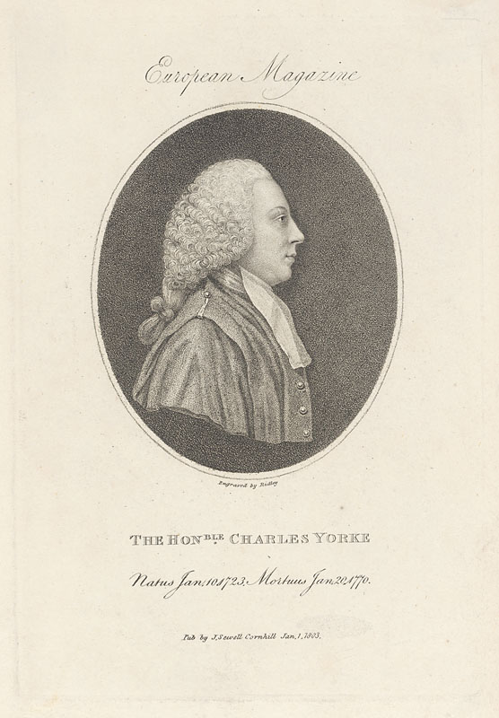 Charles Yorke (1722-1770)